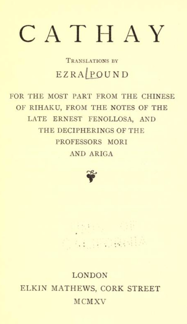 Title page from Ezra Pound, Cathay, London, Elkin Mathews, 1915. Based on the translations of Ernest Fenollosa.